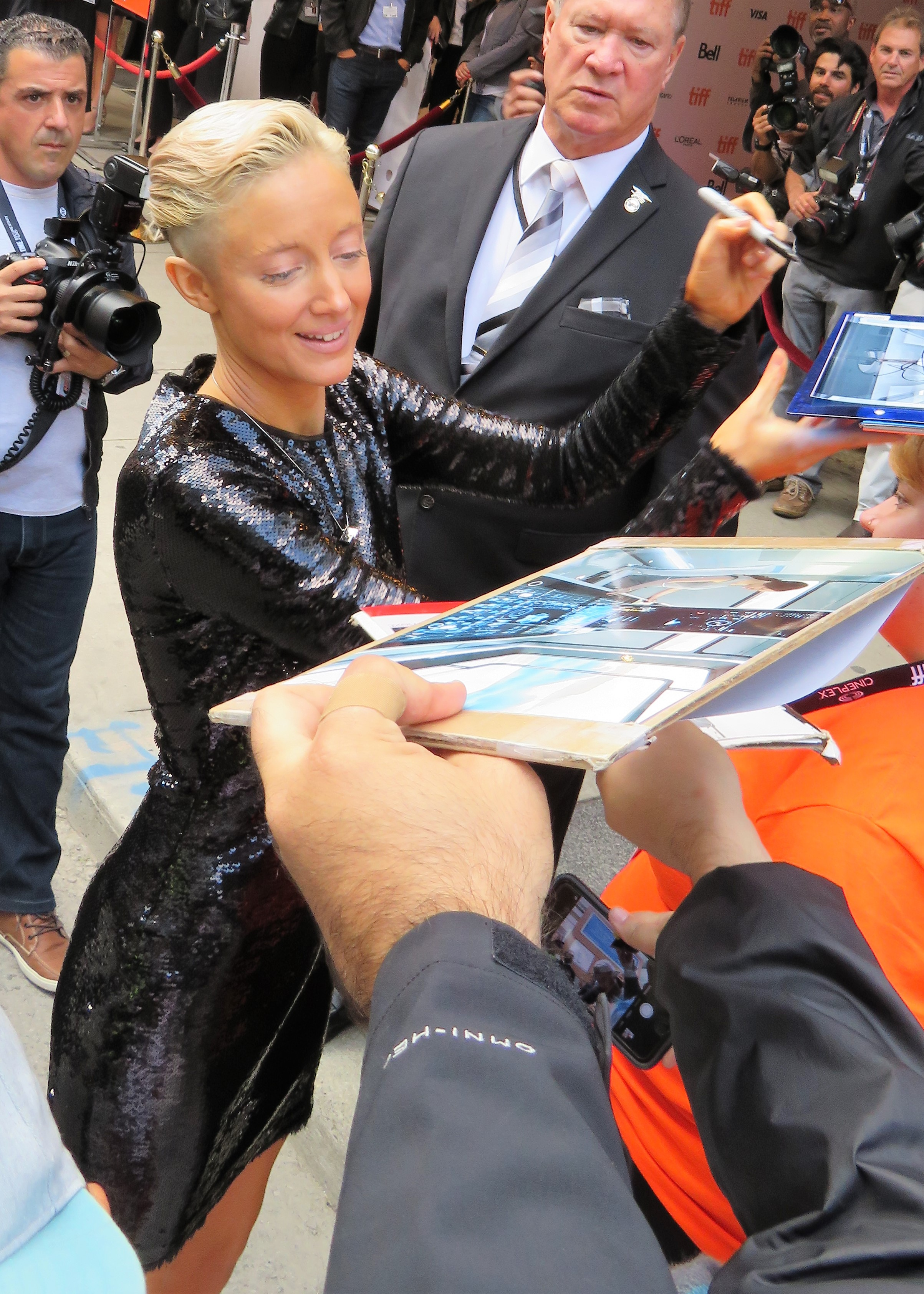 Andrea Riseborough at the premiere of Death of Stalin, 2017 Toronto Film Festival